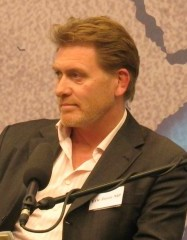 Eric Joyce, Labour MP of UK Parliament for Falkirk, ex-military and interested in Defence, Great Lakes Region of Africa and Social Media.